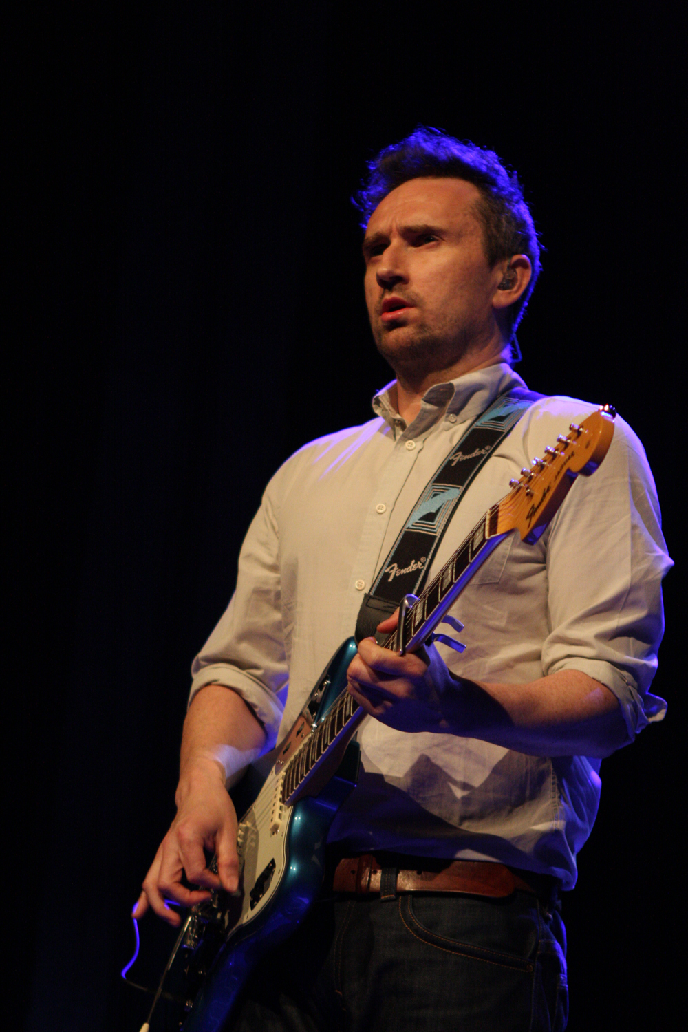 The Cranberries Enmore Theatre, Sydney Tonight The Cranberries perform tonight at Sydney's famous Enmore Theatre. The iconic group is fronted by Dolores O’Riordan and lit up the charts around the world for more than a decade with classics such as Linger, Dreams and Zombie. They have sold more than 30 million albums and have had two number one albums in Australia, No Need To Argue (1994) and To The Faithful Departed (1996). Other live favourites include Free To Decide, When You’re Gone, Salvation, Ode To My Family and Ridiculous Thoughts. They’ve performed to millions of fans across the globe including several appearances for the Pope. They’ve graced the cover of Rolling Stone and performed on Letterman and Leno. After taking a few years out to raise their families, THE CRANBERRIES release a new album, Roses, on February 27, the quartet’s first studio album since Wake Up and Smell the Coffee in 2001. THE CRANBERRIES are well known for their exceptional live performances. Dolores says “There’s something about playing with THE CRANBERRIES, it’s like putting on the pair of perfect shoes. It’s a chemistry. It just fits.” Popular Melbourne-based NZ reggae/roots/funk five-piece BONJAH will be the special guests. With over 500 Australian gigs under their belt and their second album, Go Go Chaos, hitting the charts last year, BONJAH will kick off the evening in fine style. Don’t miss your only chance to see The Cranberies perform their only Australian solo show. Websites The Cranberries Enmore Theatre McManus Entertainment Flourish PR Eva Rinaldi Photography Flickr Eva Rinaldi Photography Music News Australia